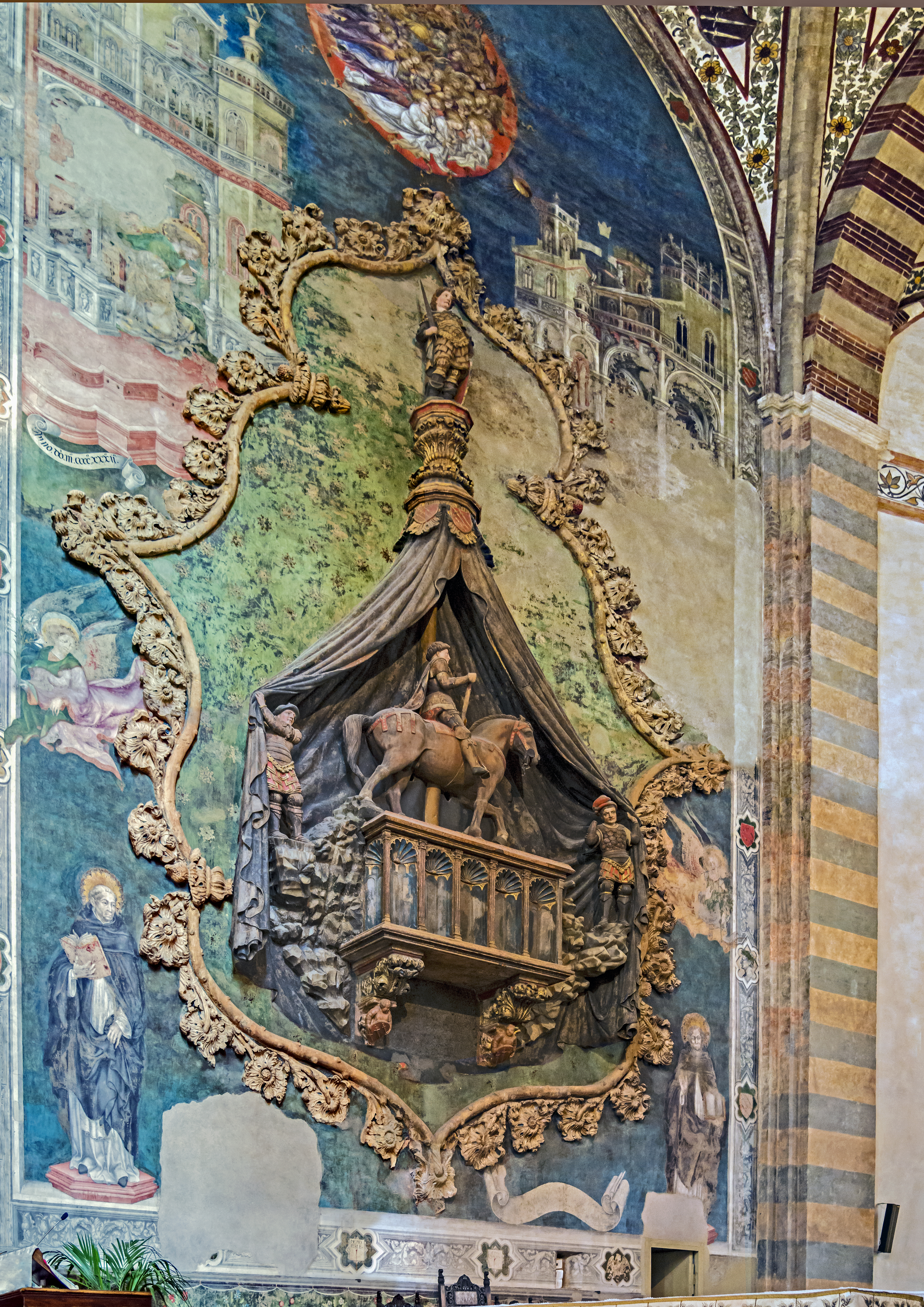 Basilica Santa Anastasia. Monument to Cortesia Serego by Niccolò di Pietro Lamberti in 1429.